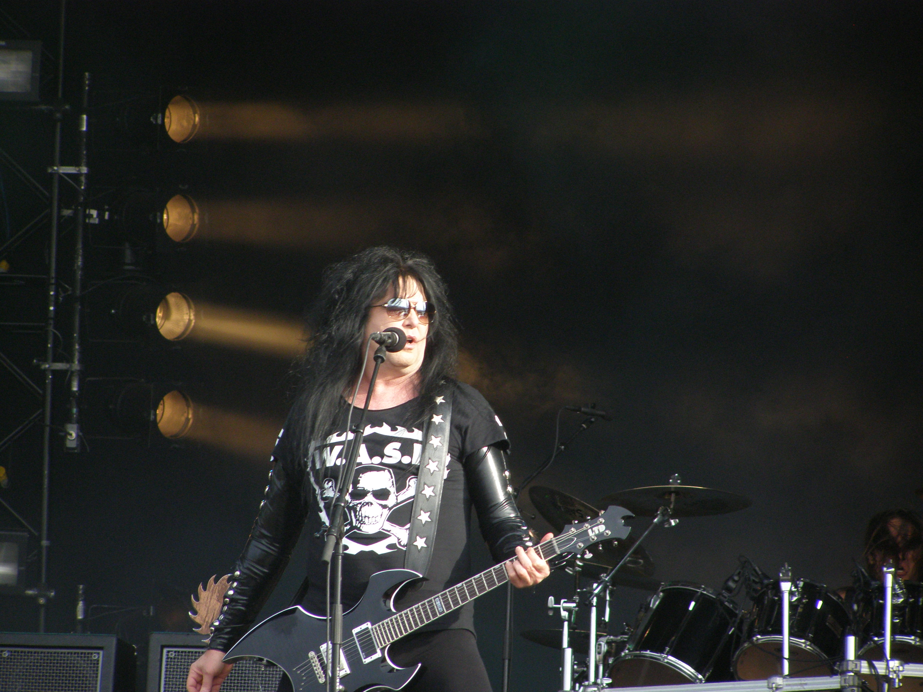 WASP live in Wacken